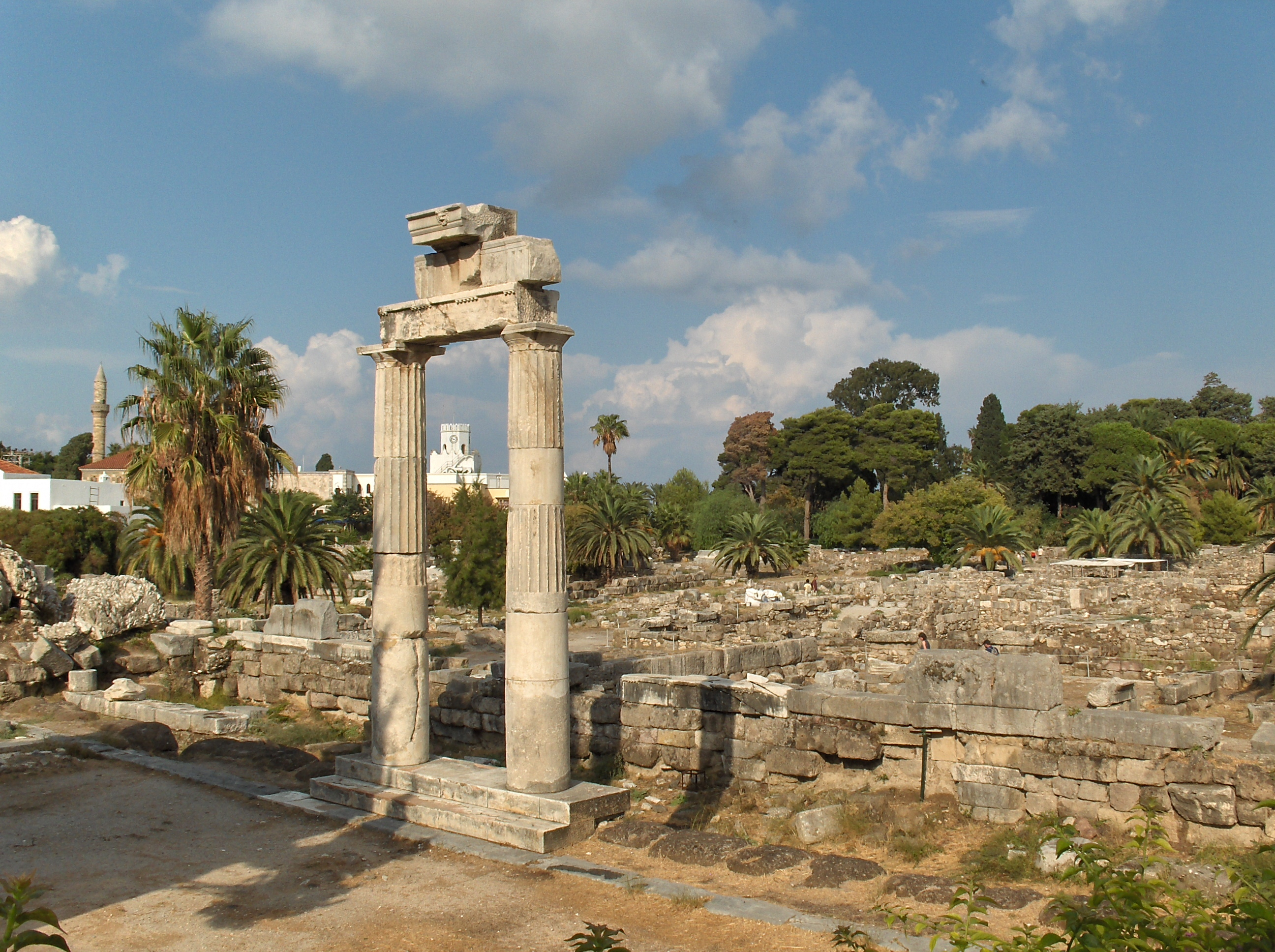 The Ancient Agora site in Kos town.